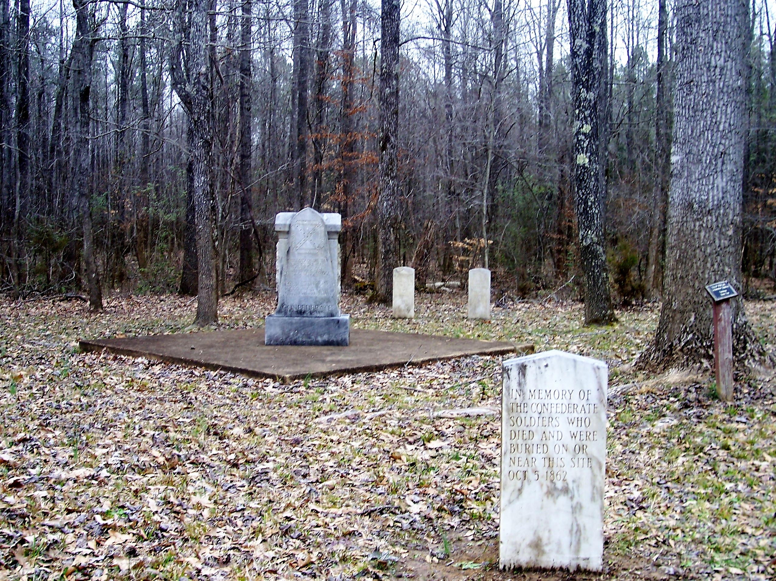 Davis Bridge Battlefield